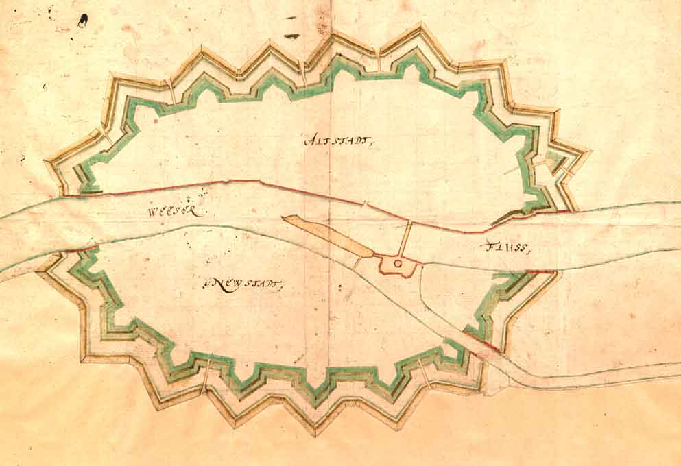 Anonymous map of the fortifications of Bremen in their definite state